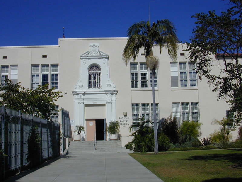 Carthay Center School in Los Angeles, California